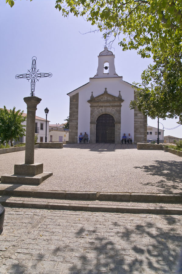 Ermita de Dos Torres